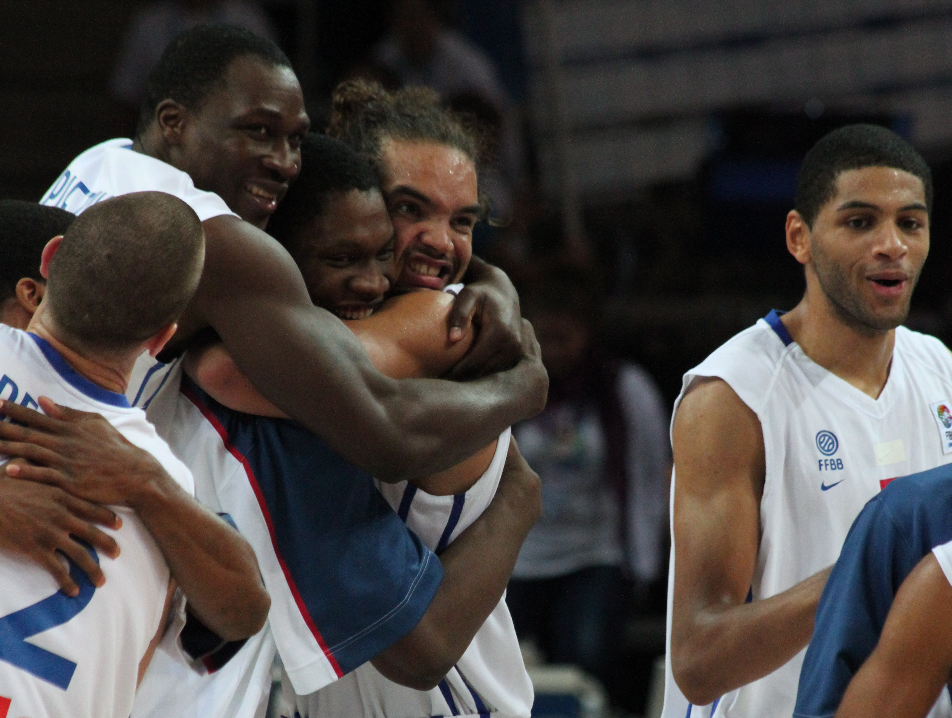 France national basketball team celebrating.